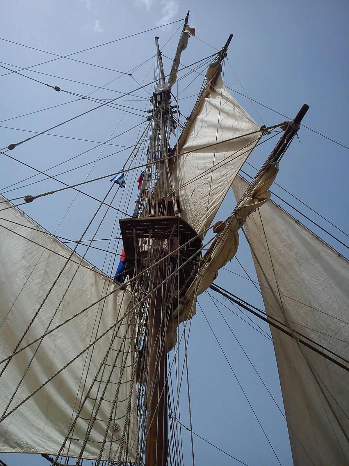 View of the fore mast rigging on the brig La Grace.